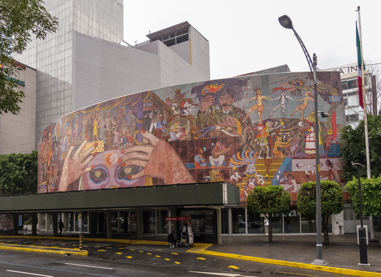 The mural was created by Diego Rivera in 1953. San Ángel, Ciudad de México.